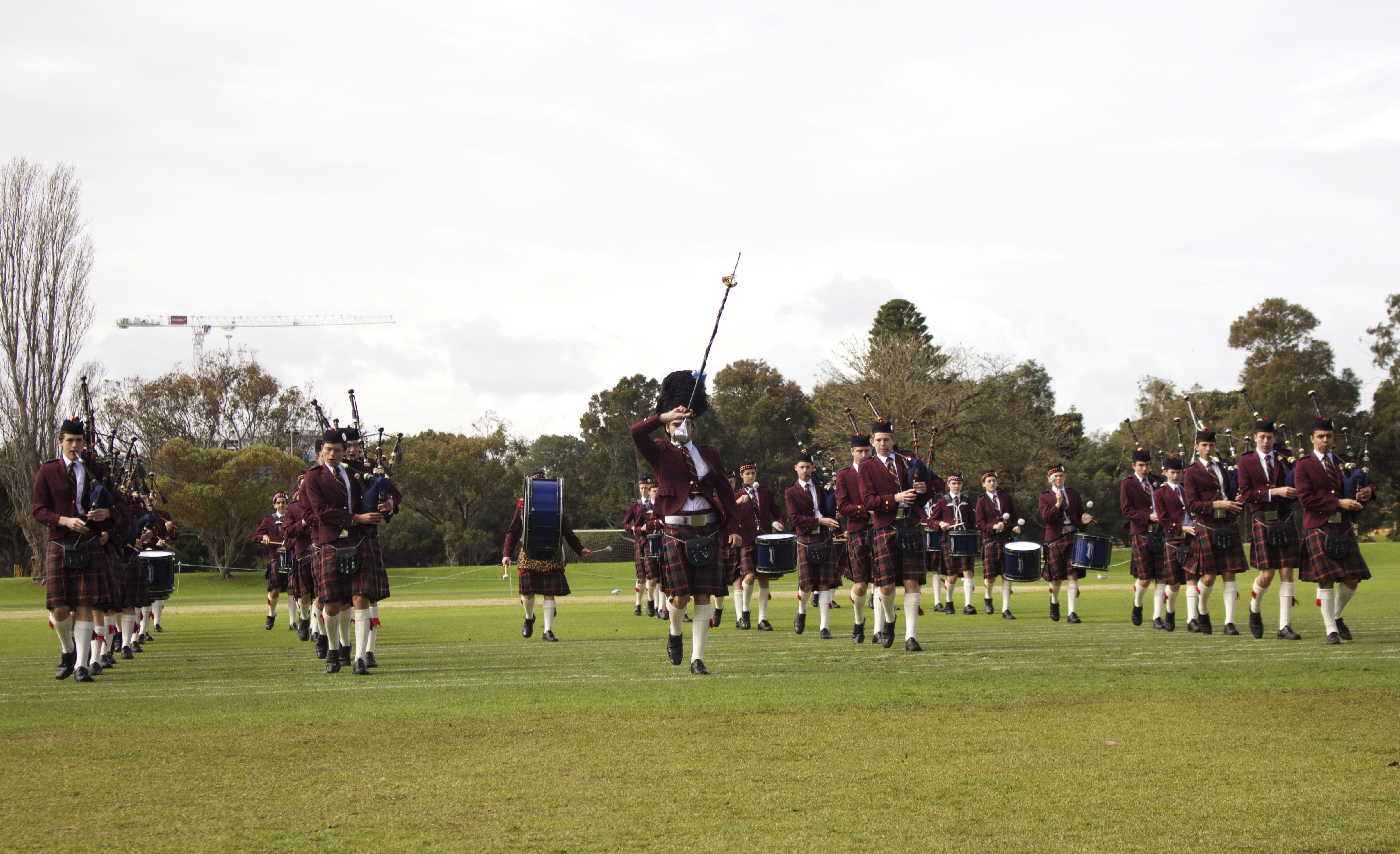 Scotch College Pipe Band performing at Scotch College Memorial Oval in Swanbourne, Western Australia